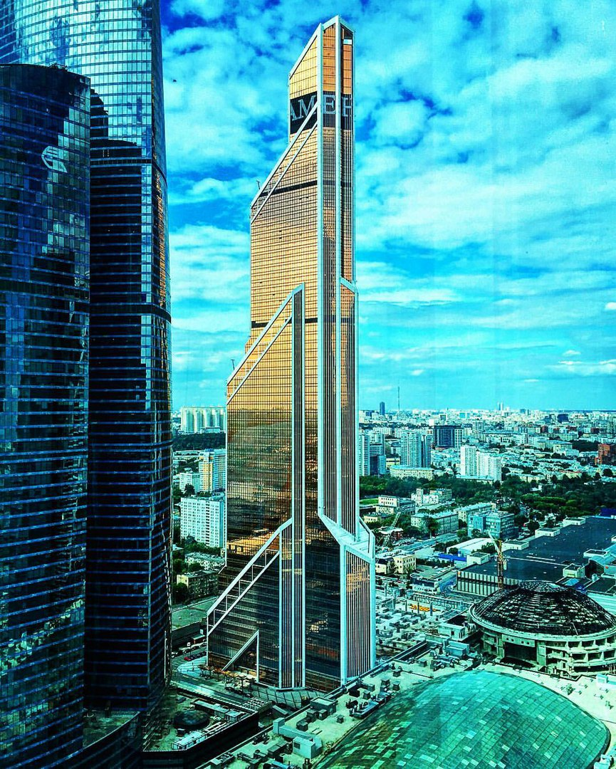 Mercury City Tower in Moscow